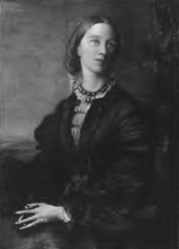 Portrait of Mrs. Russell Gurney Emelia Russell Gurney (1823–1896), English activist, patron and benefactor, dated 1866.